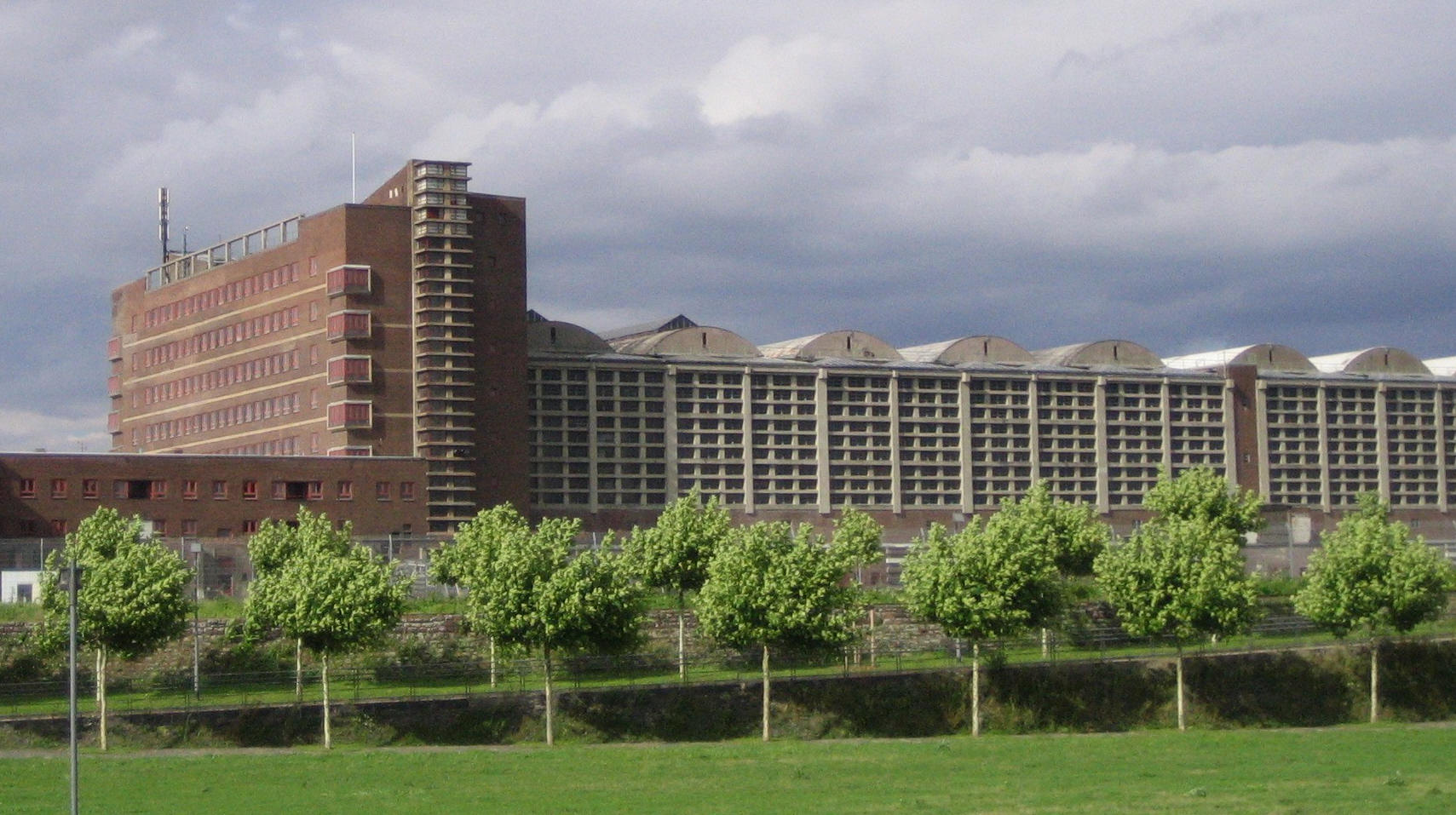 Grossmarkthalle Frankfurt, View from the river Main, close-up of western part